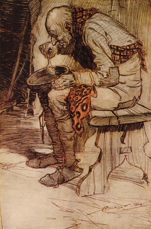 Image used to illustrate the Brother Grimm tale The Old Man and his Grandson.